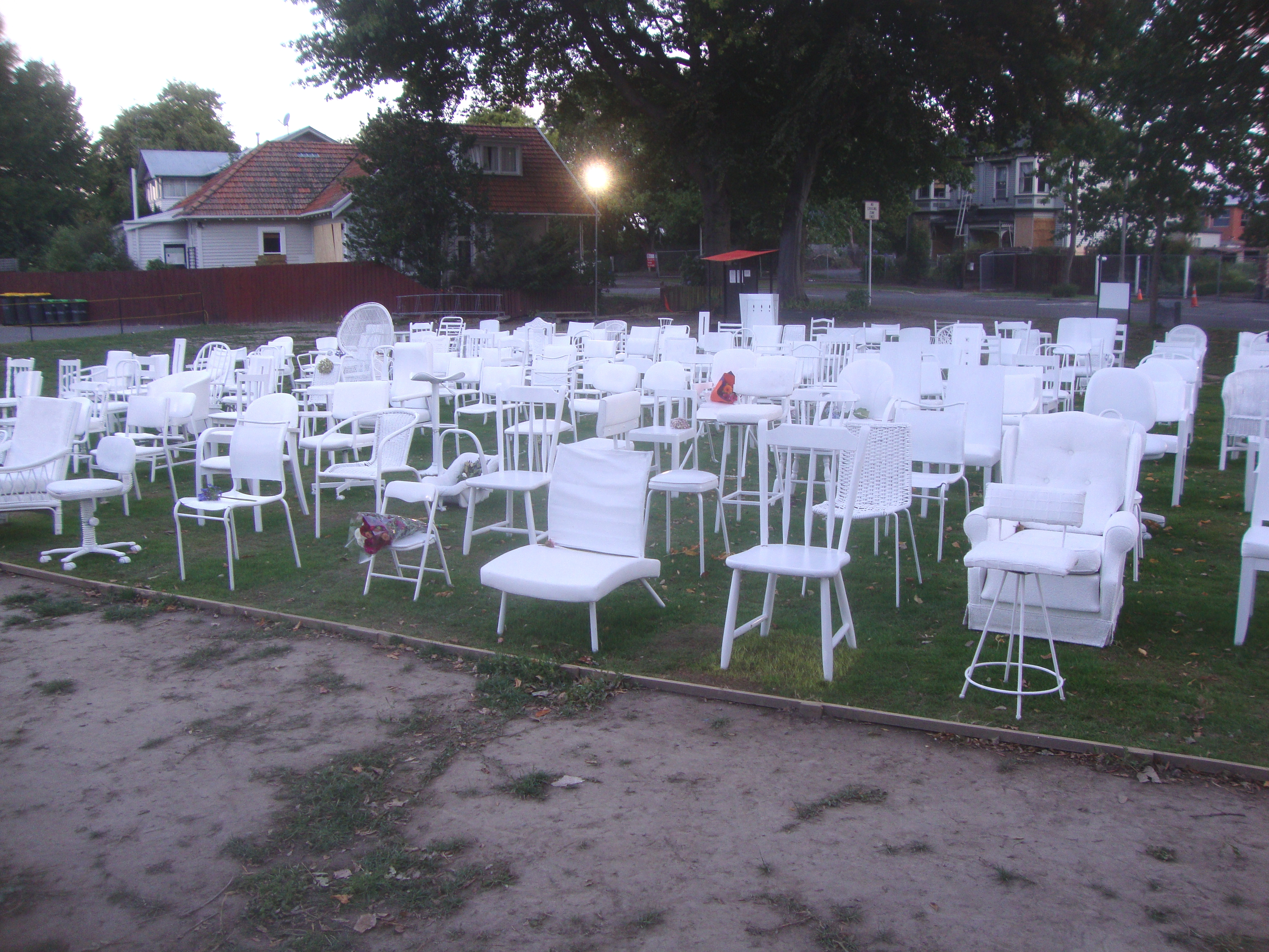 "185 Empty Chairs", a temporary memorial to the victims of the 2011 Christchurch earthquake on the former site of the Oxford Terrace Baptist Church.